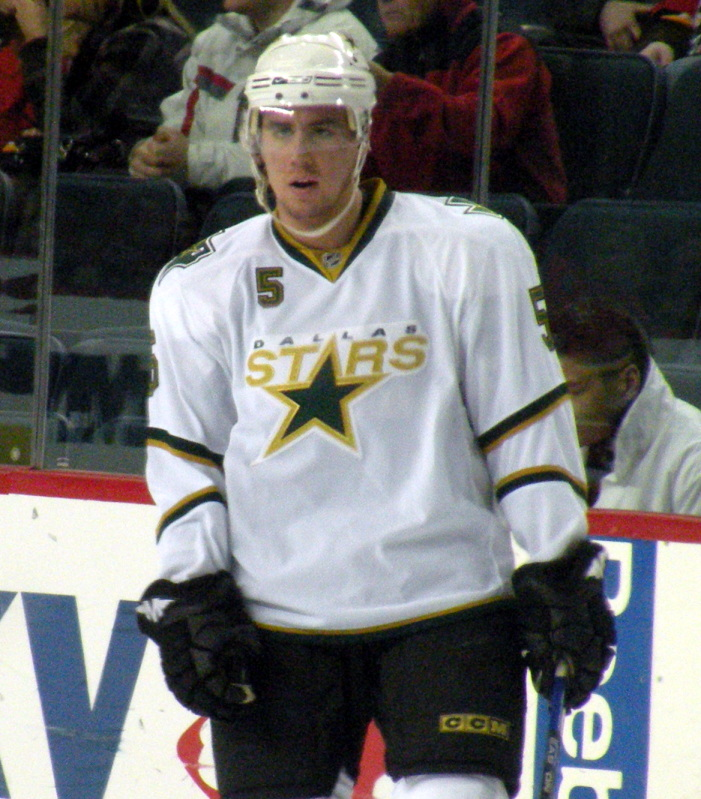 Dallas Stars defenceman Matt Niskanen during warm-up prior to a National Hockey League game against the Calgary Flames in Calgary.